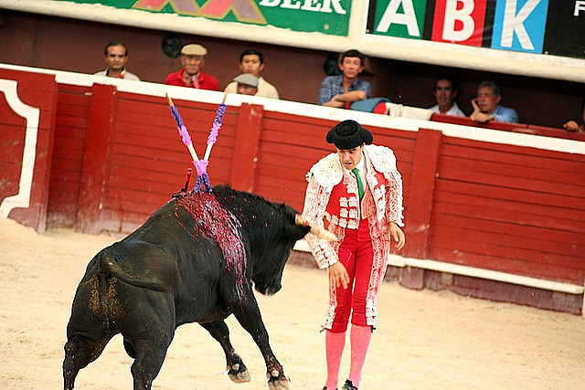 Plaza de Toros Bullfight and Folkloric Show Cancun, Mexico. Bullfighting also known as tauromachy (from Greek ταυρομαχία - tauromachia, "bull-fight"), is a traditional spectacle of Spain, Portugal, some cities in southern France and in several Latin American countries, in which one or more bulls are ritually killed in a bullring as a public spectacle. In Portugal it is illegal to kill a bull in the arena, a nonlethal variant stemming from Portuguese influence is also practiced on the Tanzanian island of Pemba[1]. The tradition, as it is practiced today, involves professional toreros (toureiros in Portuguese; also referred to as toreadors in English), who execute various formal moves in order to subdue the bull itself. Such maneuvers are performed at close range, and have in some cases resulted in injury or even death of the performer. The bullfight usually concludes with the death of the bull by a sword thrust. In Portugal the finale consists of a tradition called the pega, where men (forcados) try to grab and hold the bull by its horns when it runs at them. Forcados are dressed in a traditional costume of damask or velvet, with long knit hats as worn by the campinos (bull headers) from Ribatejo. Bullfighting generates heated controversy in many areas of the world, including Mexico, Ecuador, Spain, Peru, and Portugal. Supporters of bullfighting argue that it is a culturally important tradition, while animal rights groups argue that it is a blood sport because of the suffering of the bull and horses during the bullfight. .au/blog/story/11732